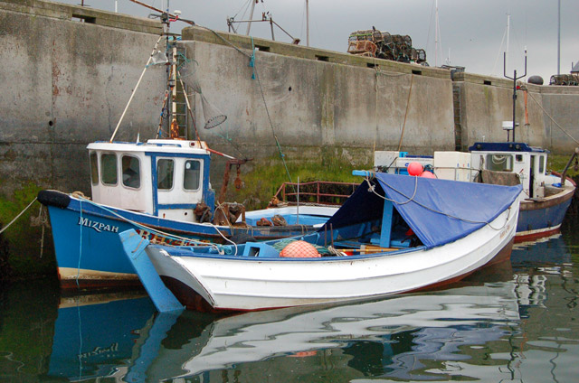 Fishing smacks and a coble at Amble Three fishing boats moored against the quay at Amble. The boat nearest the camera is a coble, an open vessel unique to the north east coast of England. Usually cobles are clinker-built but this one appears to be of carvel construction. Other characteristics of cobles include shallow draft for landing and launching from beaches, twin keels, high bow to cope with heavy seas and launching into surf, a steeply raked transom, and a tarpaulin shelter instead of a cabin. Originally, cobles were sailed (with a simple squaresail rig) but most are now motorised.